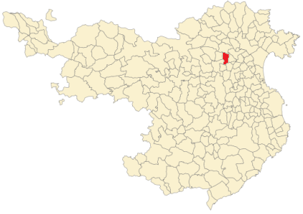 Avinyonet de Puigventós